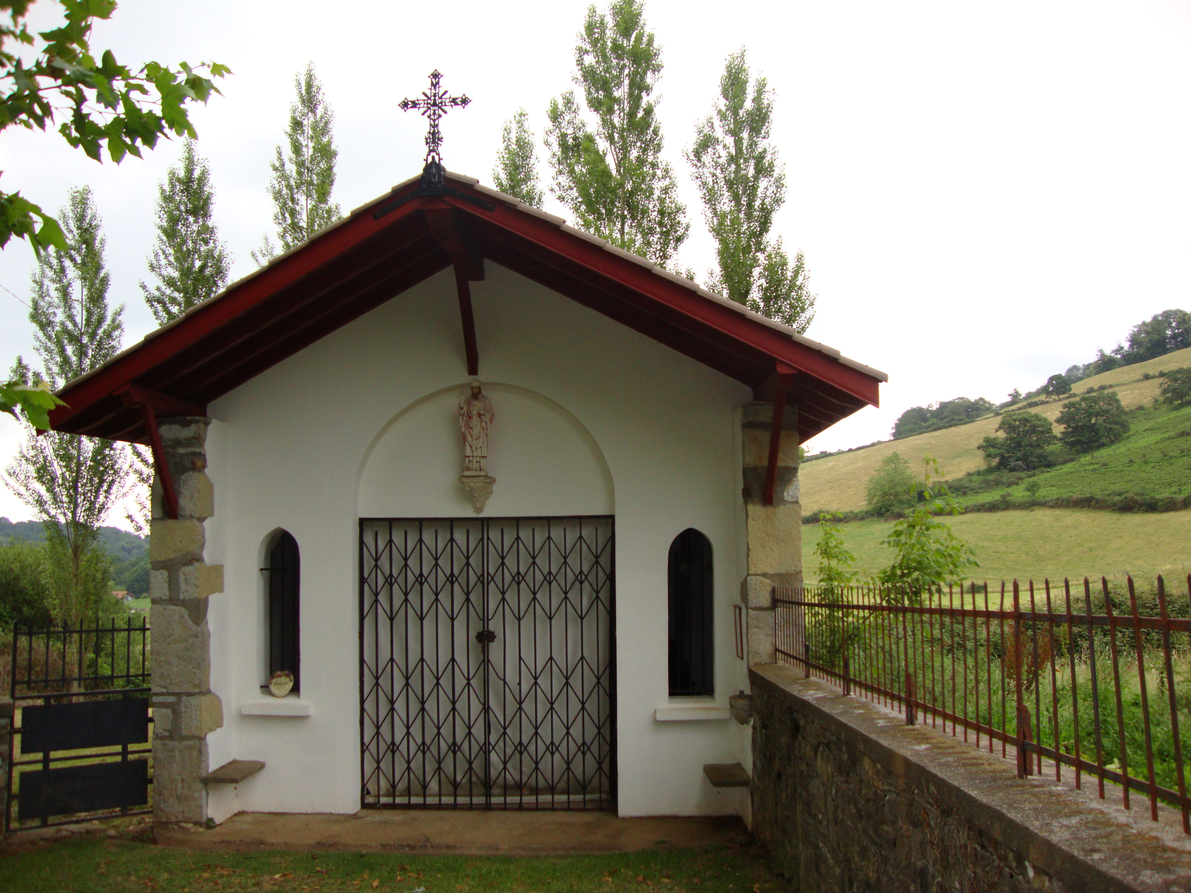 Hélette (Pyr-Atl, Fr) St.Vincent chapel, outside the village.